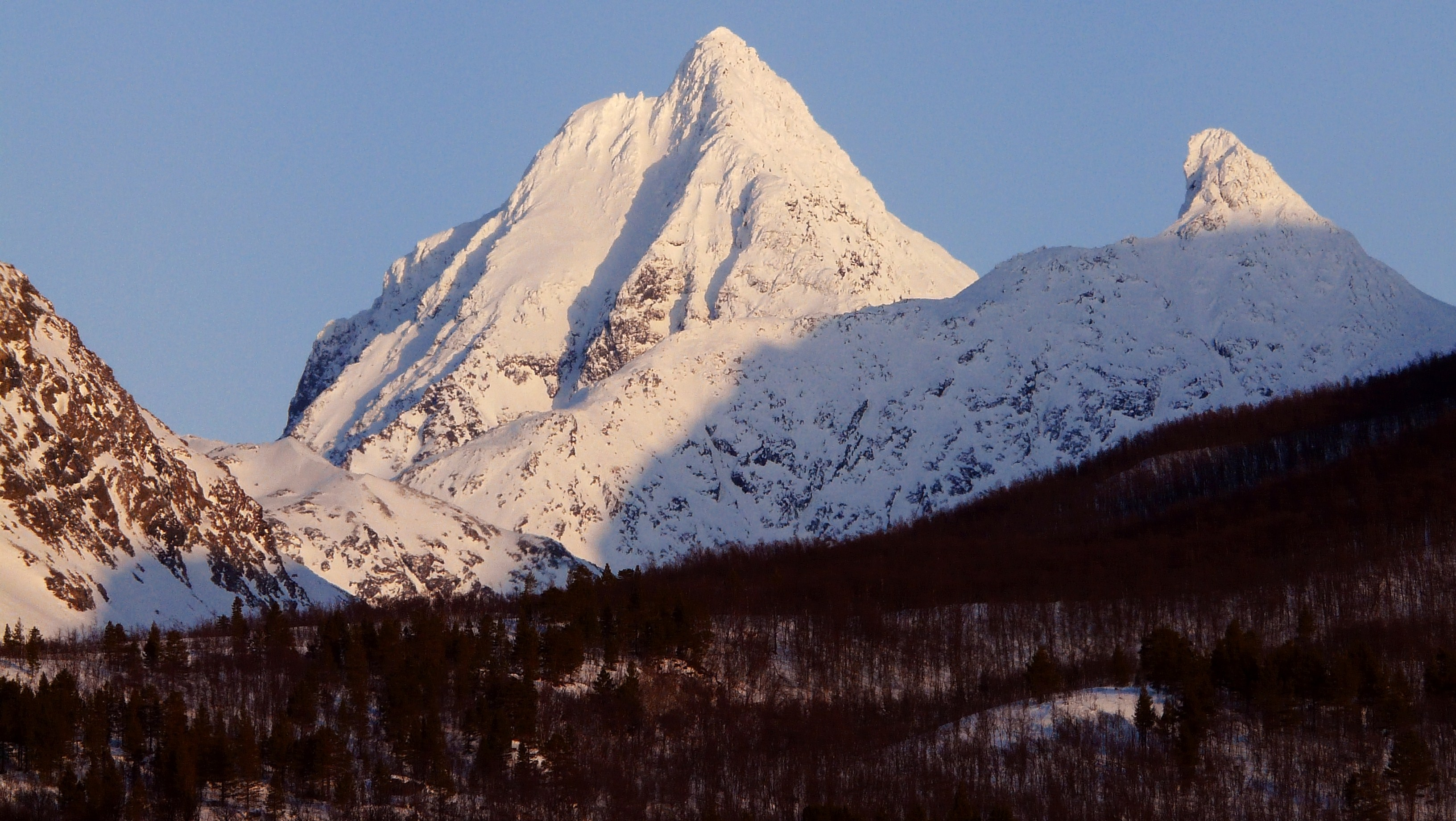 Nállangáisi (1,595 m) and Sfinxen (1,285 m) as seen from Lakselvdalen in 2009 February.